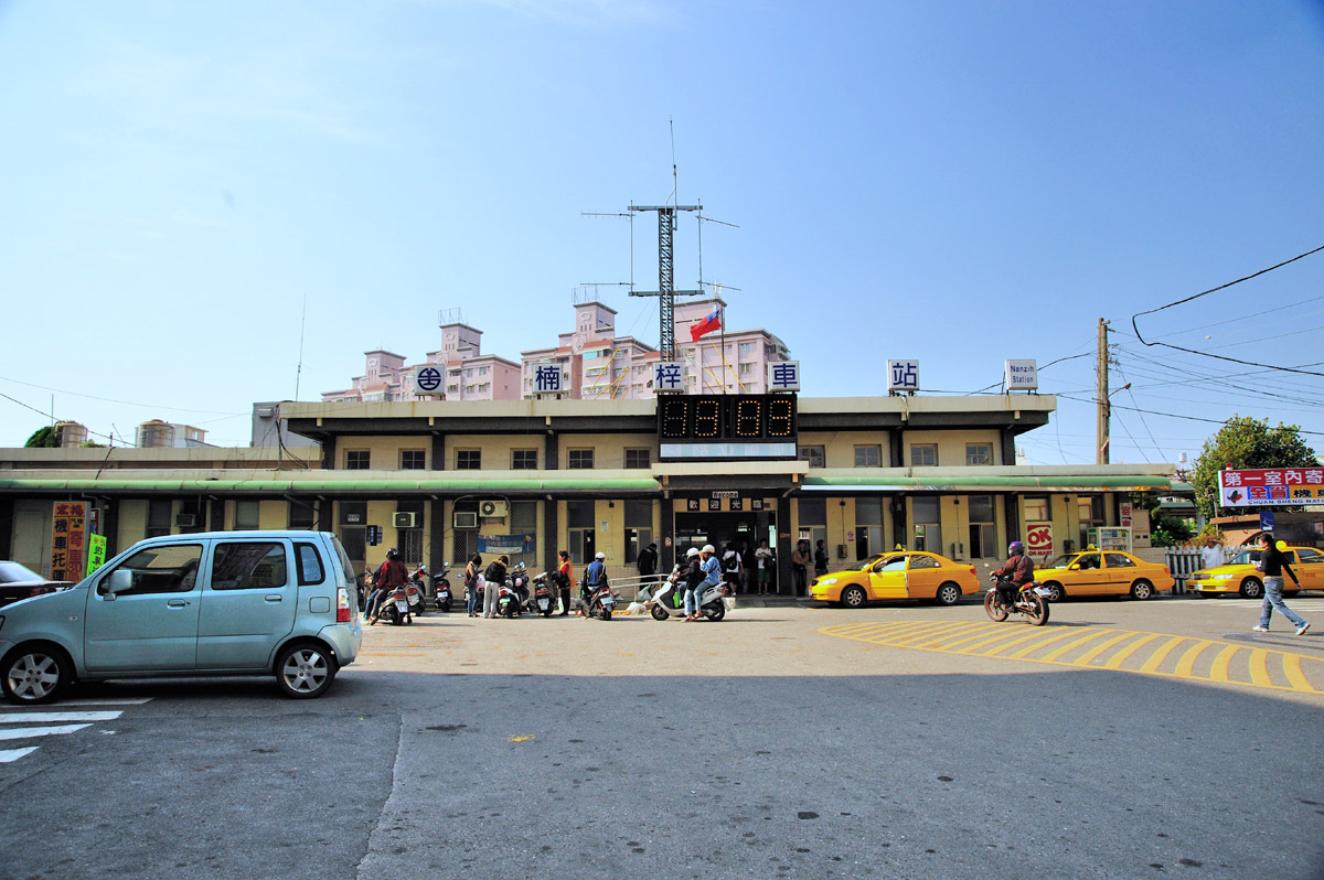 NanZih Station is a local train station of Taiwan's Western main rail line. It locates within the boundary of NanZih District, KaoHsiung City.